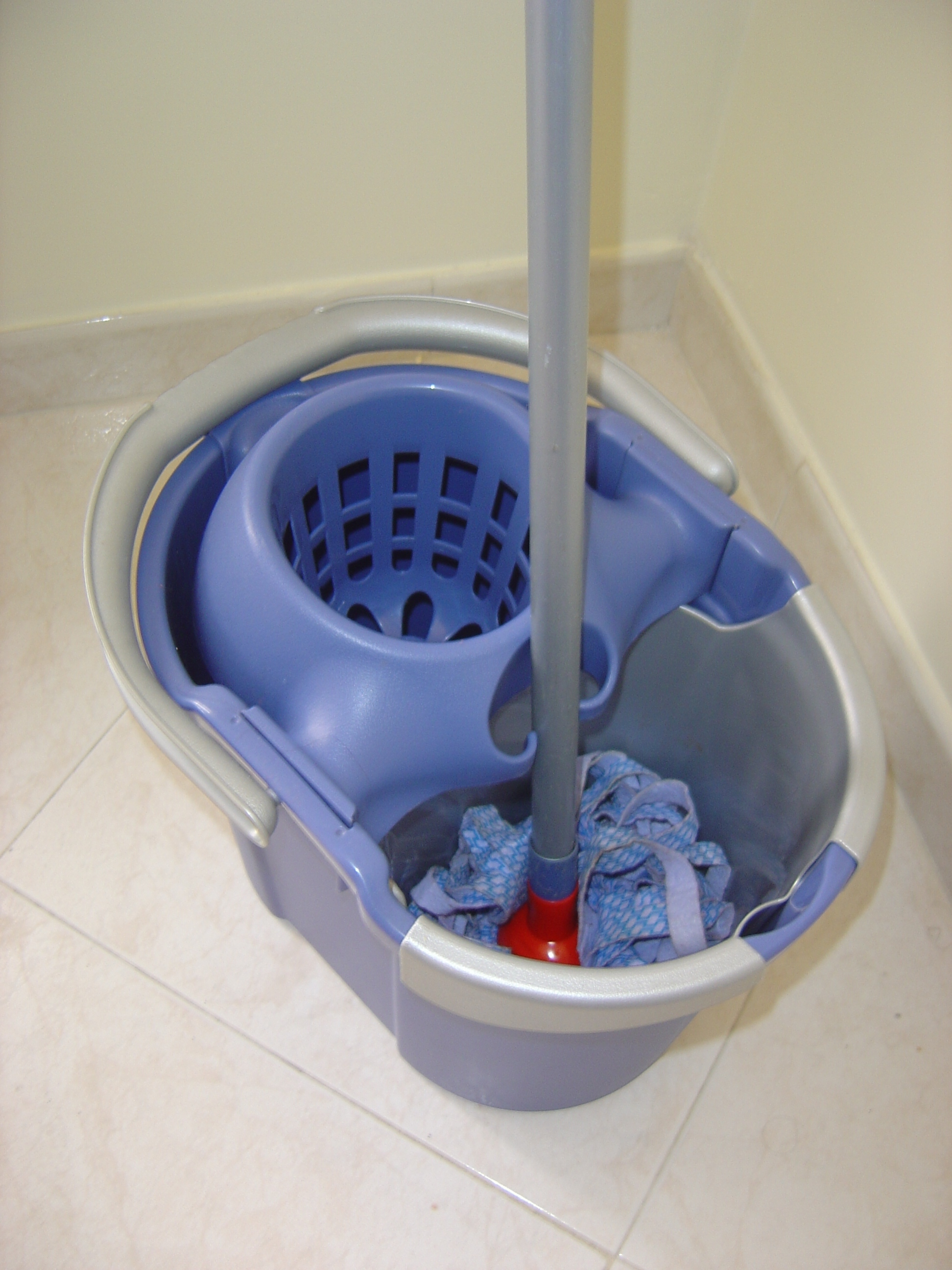 A plastic janitor's bucket with a mop.